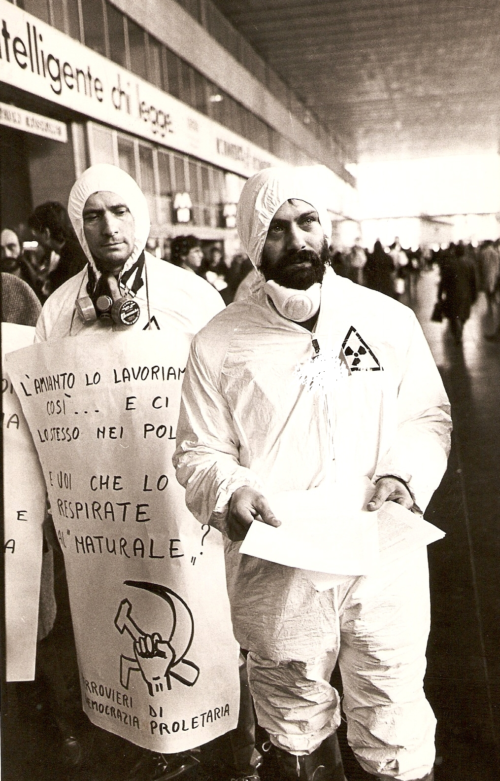 Fabio Alberti (on the right) during a demosntration against the use of absestum in the train station of Rome